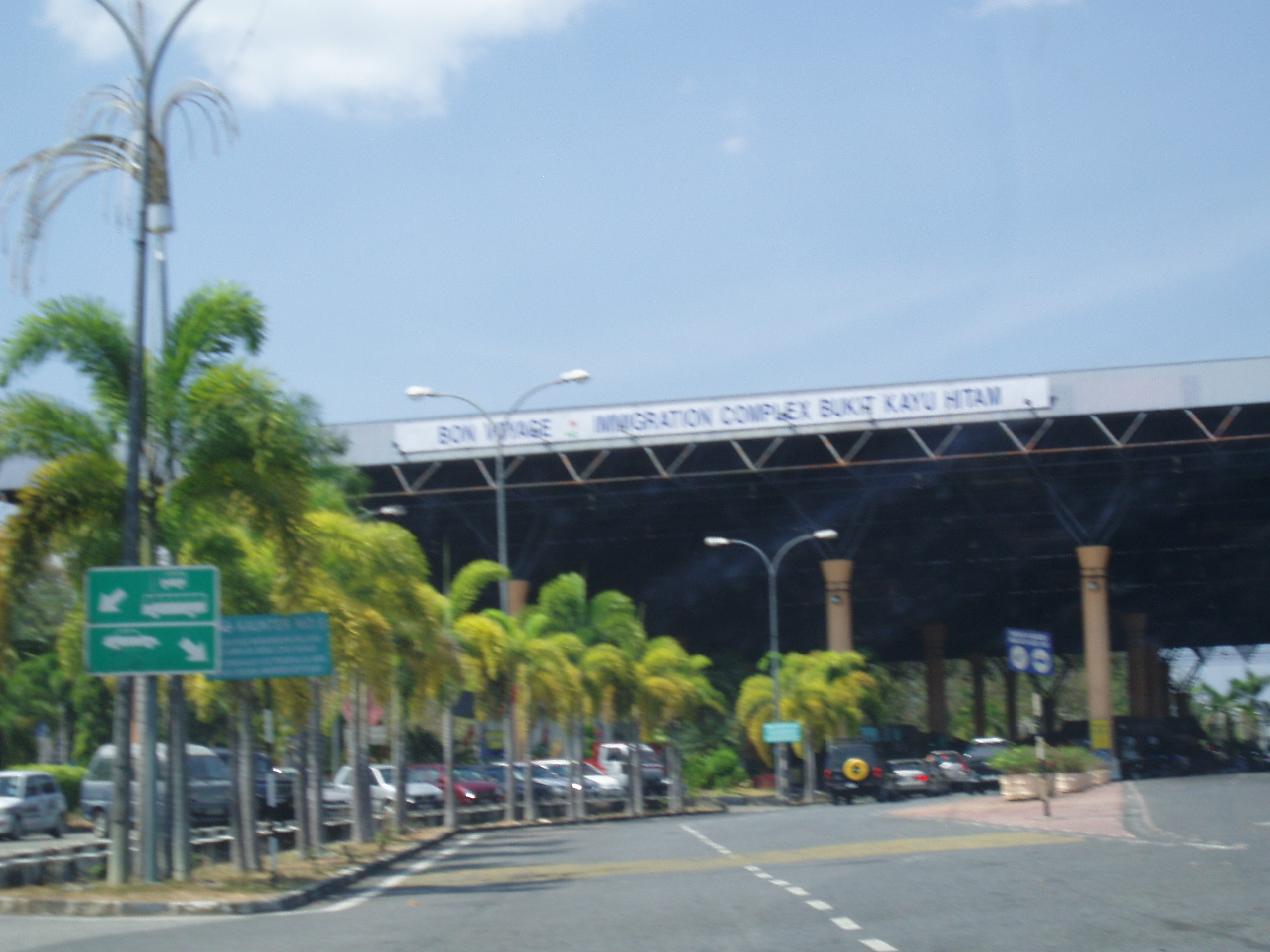 Old Bukit Kayu Hitam checkpoint building